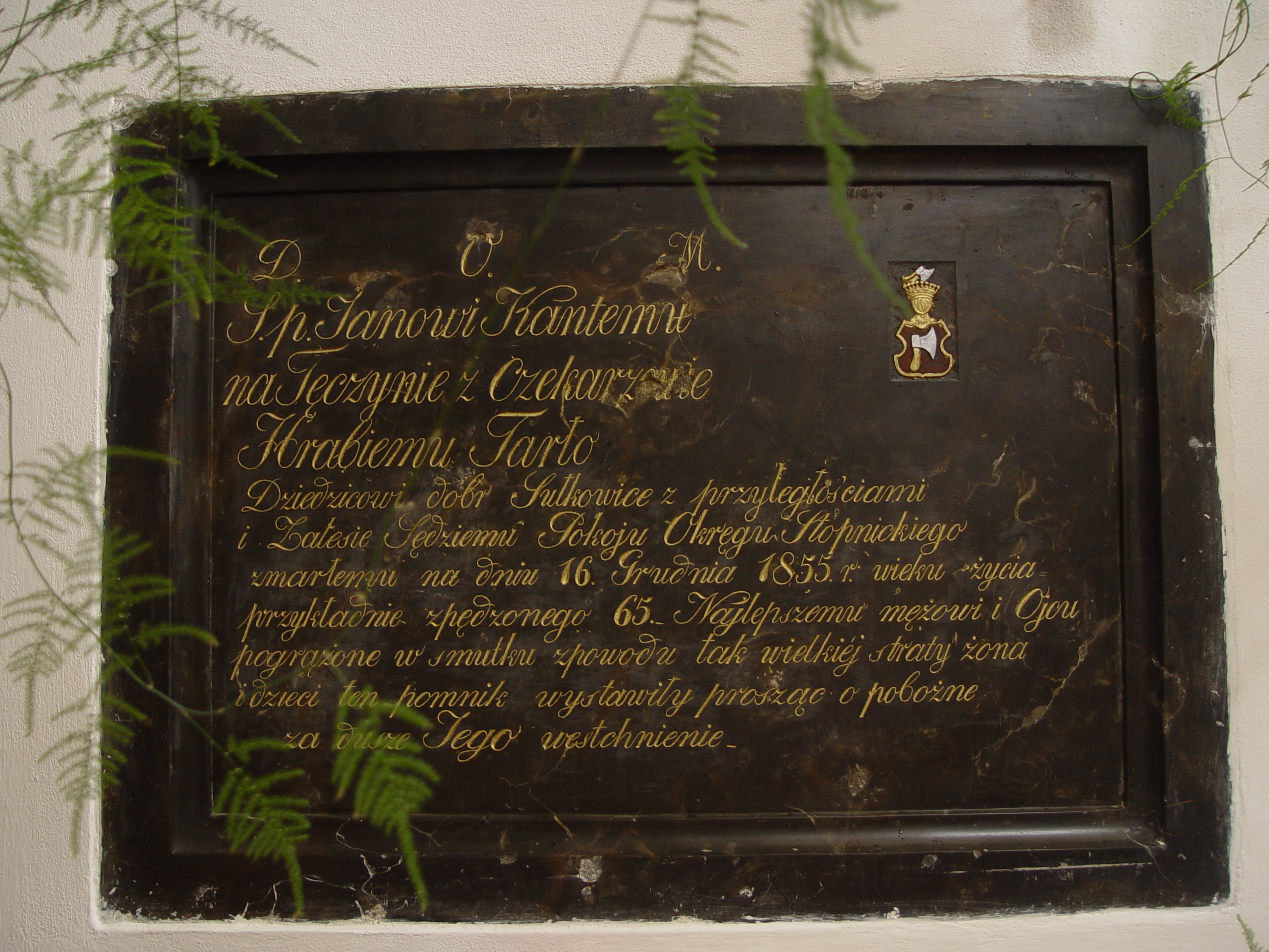 Szczaworyż, Church of St. James, son of Zebedee, the epitaph of Jan Tarło.